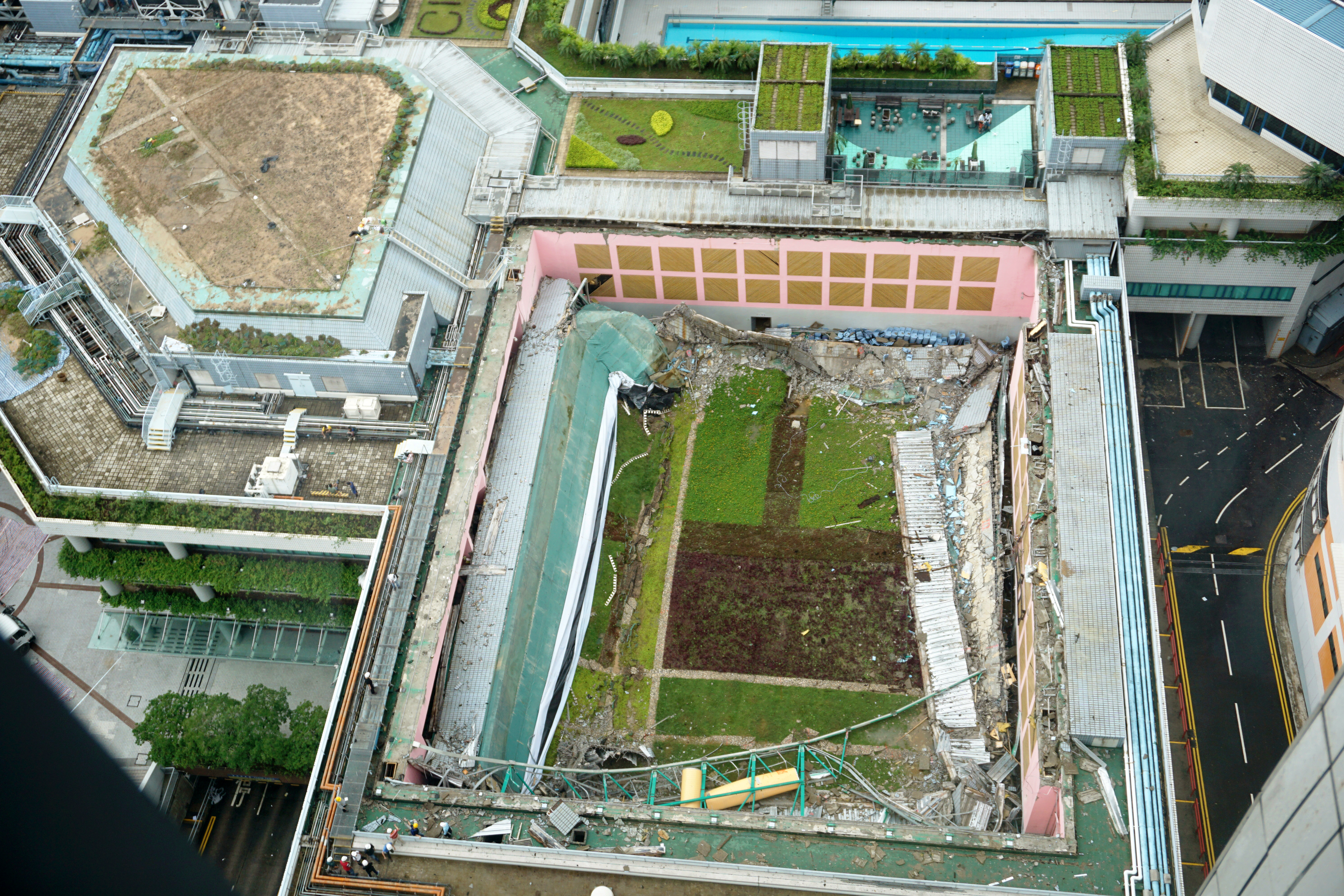 City University in Kowloon Tong, Hong Kong.